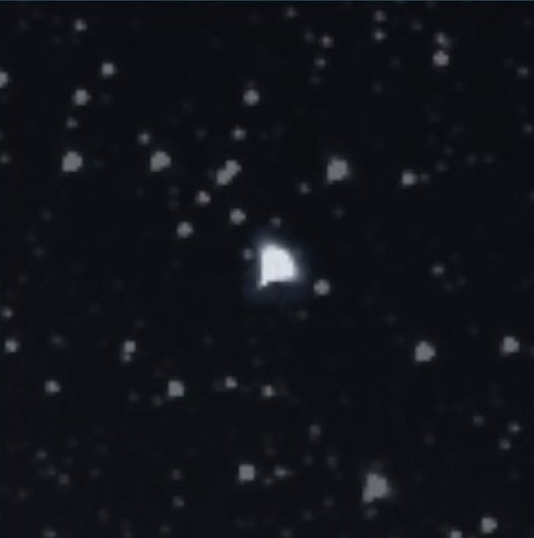 HD 21749 Star Exoplanet System[1] - CROPPED Scientists at M.I.T. and elsewhere confirmed a new planet, HD 21749b, which orbits a star about the size of the sun and is about 53 light years away. References ↑ Overbye, Dennis (7 January 2019). "Another Day, Another Exoplanet: NASA’s TESS Keeps Counting More". The New York Tmes. Retrieved on 8 January 2019.